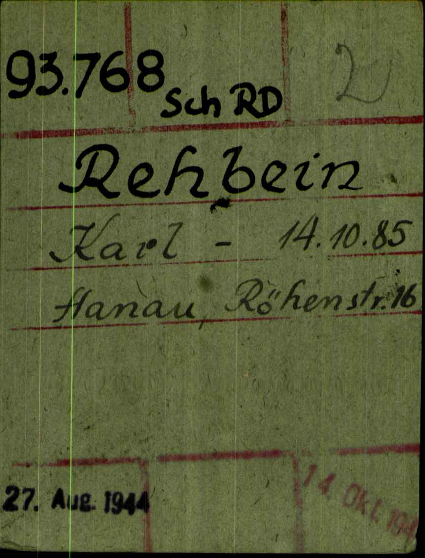 Registration card of Karl Rehbein as a prisoner at Dachau Nazi Concentration Camp.